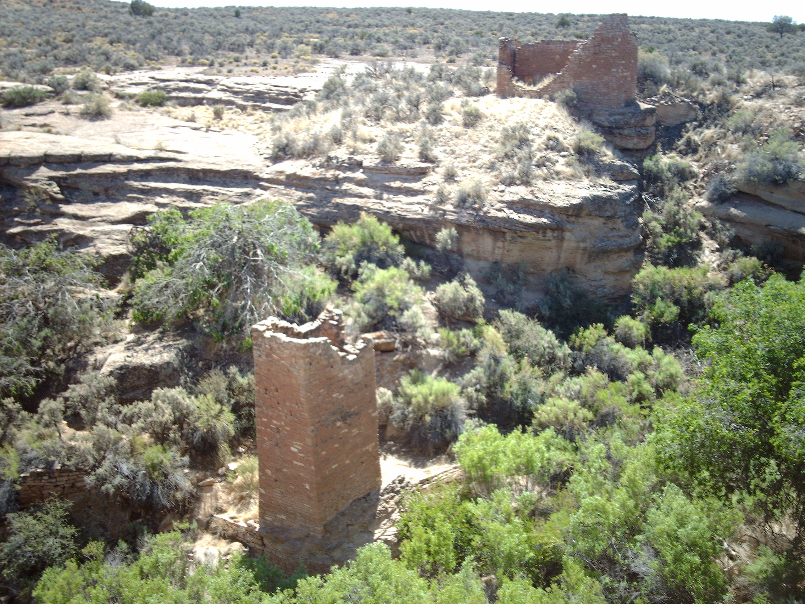 Square Tower ruins, anasazi building in the Hovenweep National Monument area - USA.